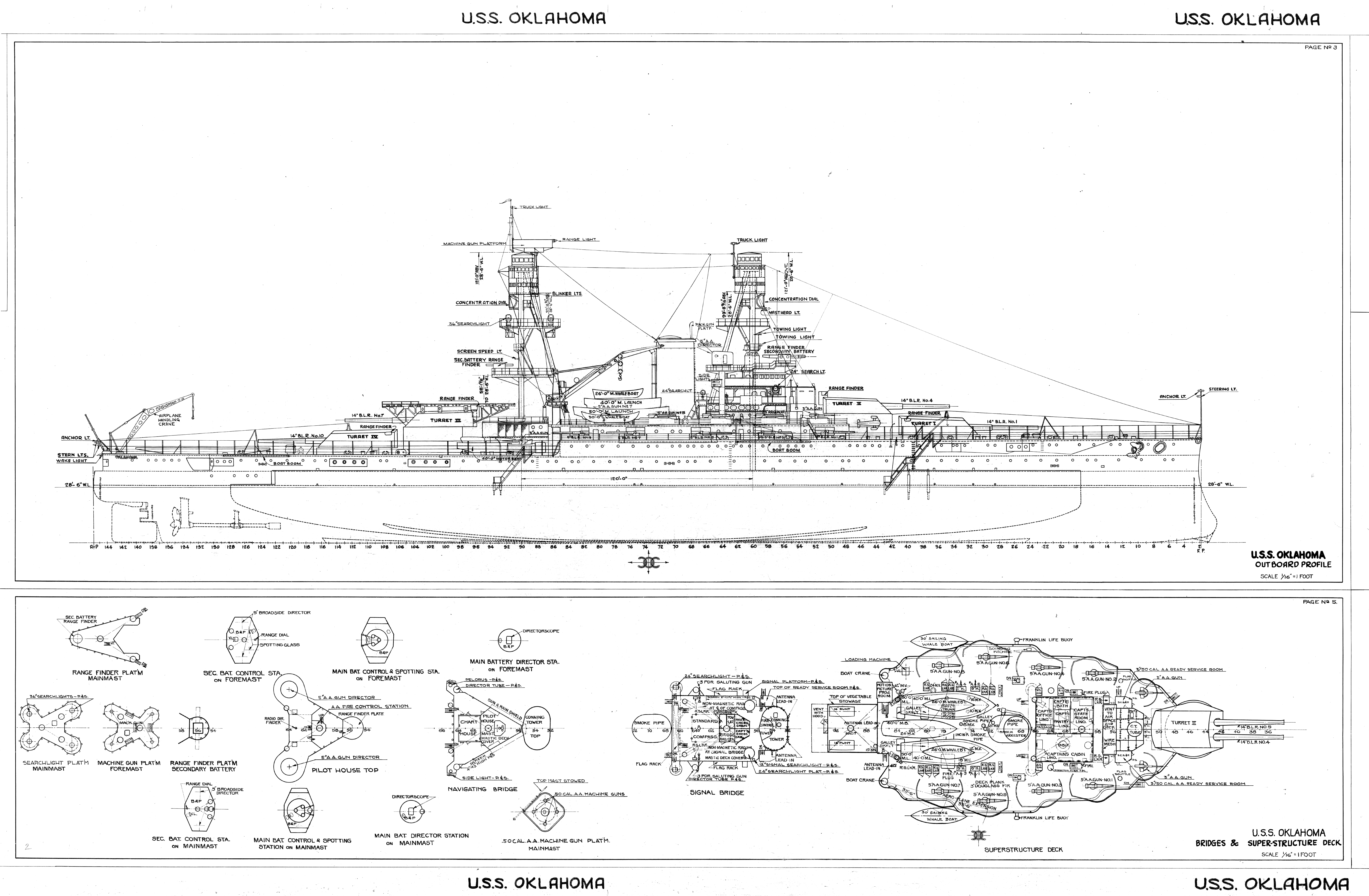 Outboard profile of the U.S. Navy battleship USS Oklahoma (BB-37), showing her appearance after her 1927-1929 modernization.